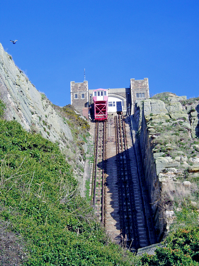 Hastings funicular railway - the East Hill Lift. Picture taken by me in January 2005. Ian Dunster 12:35, 5 May 2005 (UTC)